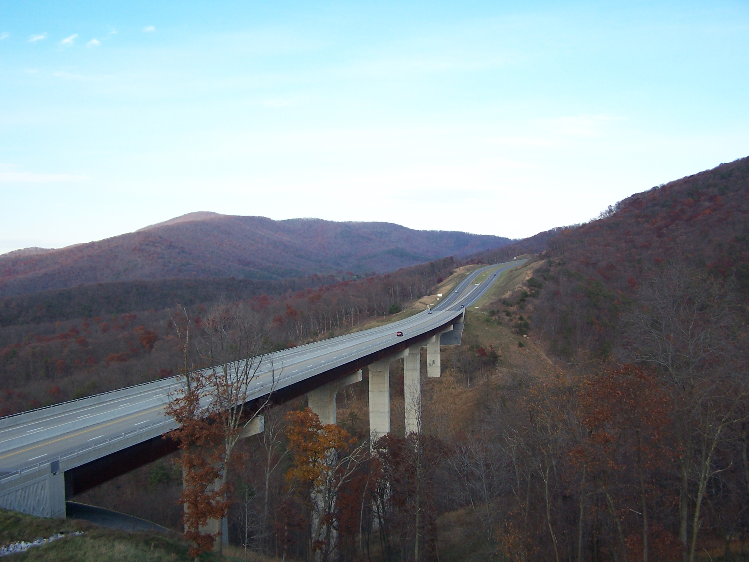 The Clifford Hollow Bridge carries West Virginia Route 55 (Corridor H) over Clifford Hollow near Moorefield, Hardy County, West Virginia.